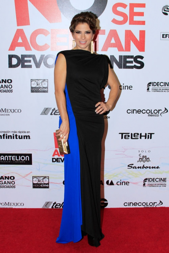 (No se aceptan devoluciones)